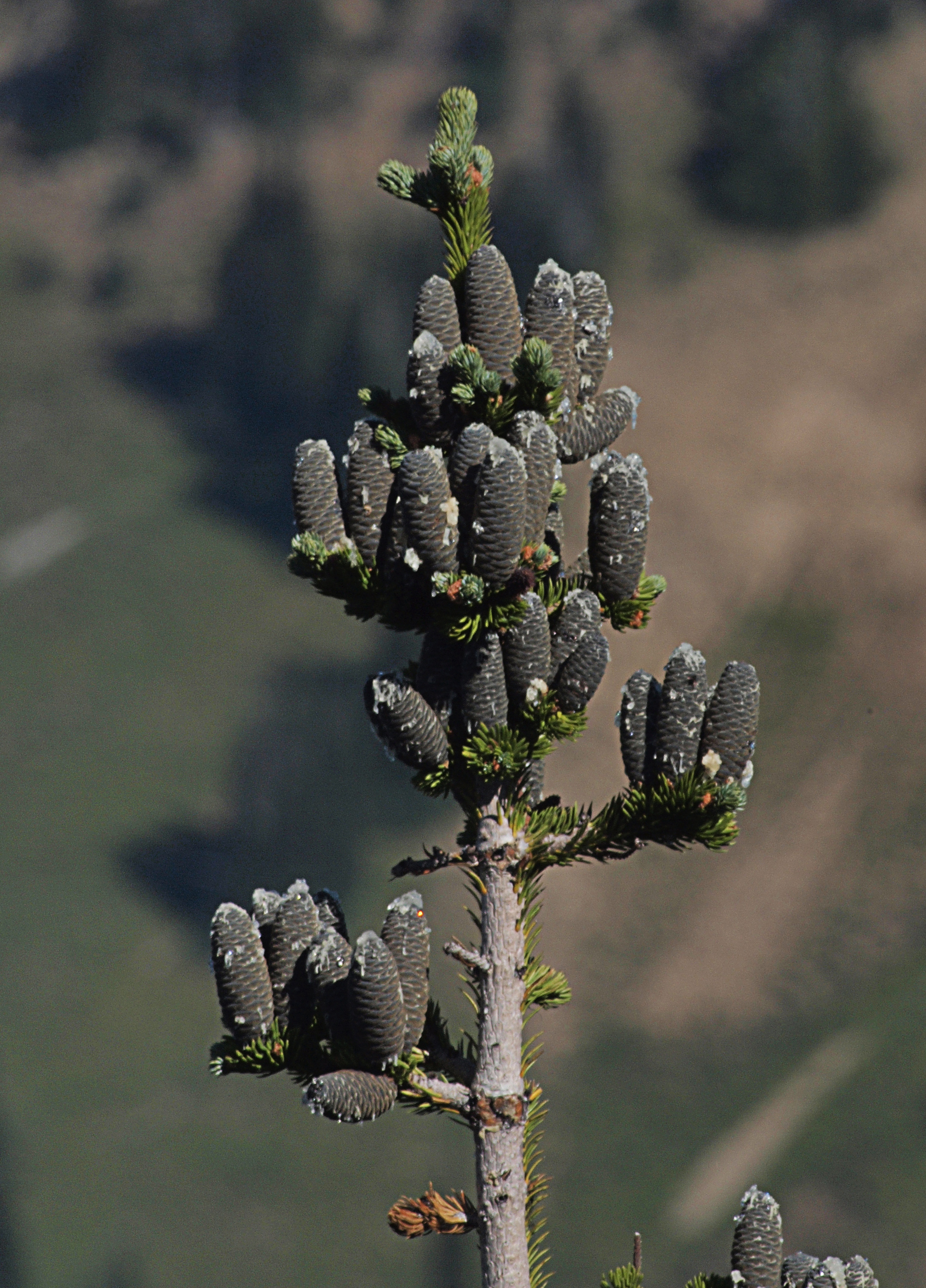 Cones of Subalpine Fir, taken at Sunrise Point